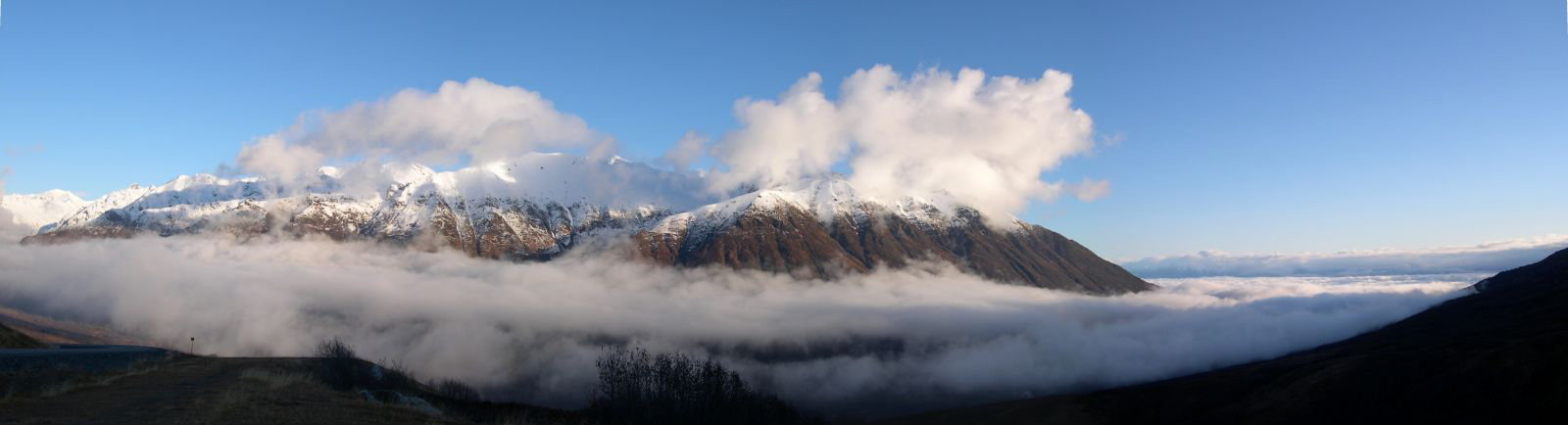 Mountains from Hatcher Pass (Alaska)